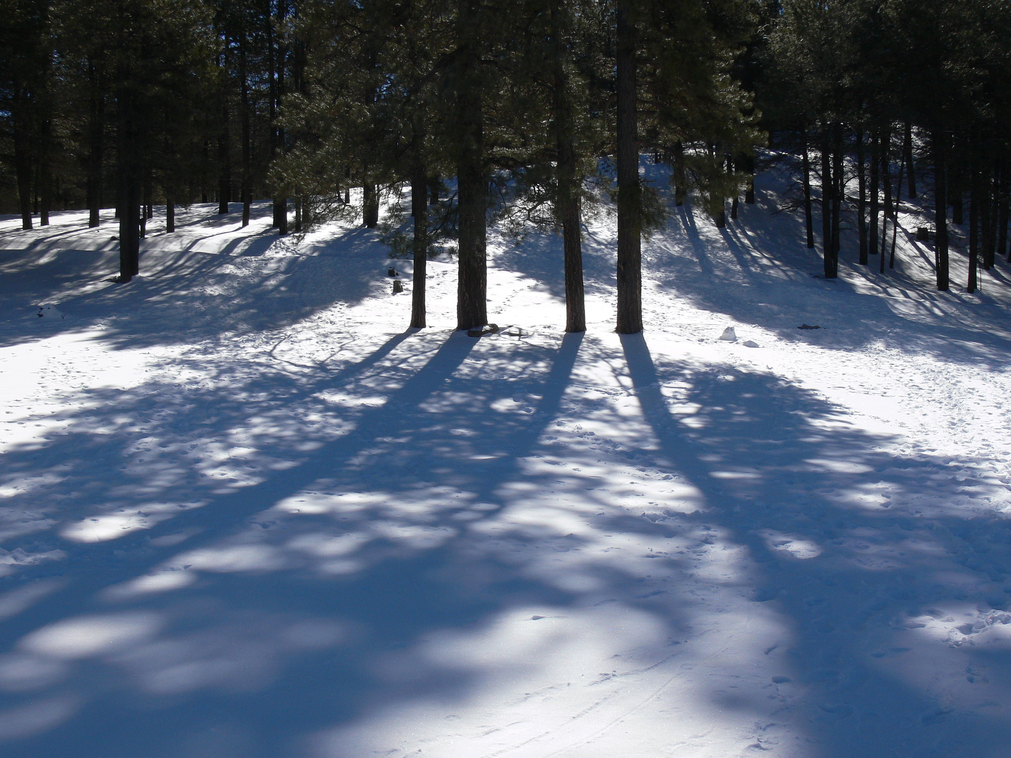 The image represents a part of a Pinus Ponderosa forest in the winter. The image was taken near Flagstaff, Arizona in January 2008.